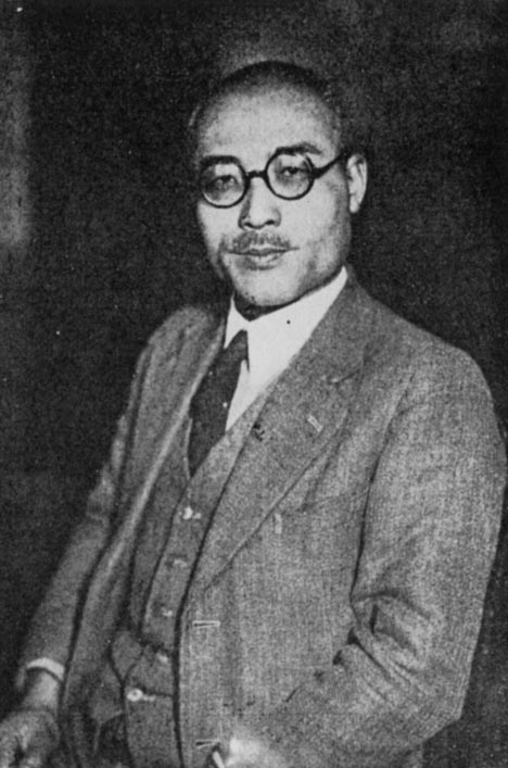 New superintendent Ichirō Takeda.